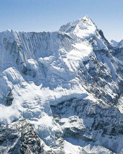 Num Ri, 6677 m, Khumbu, Himalaya.